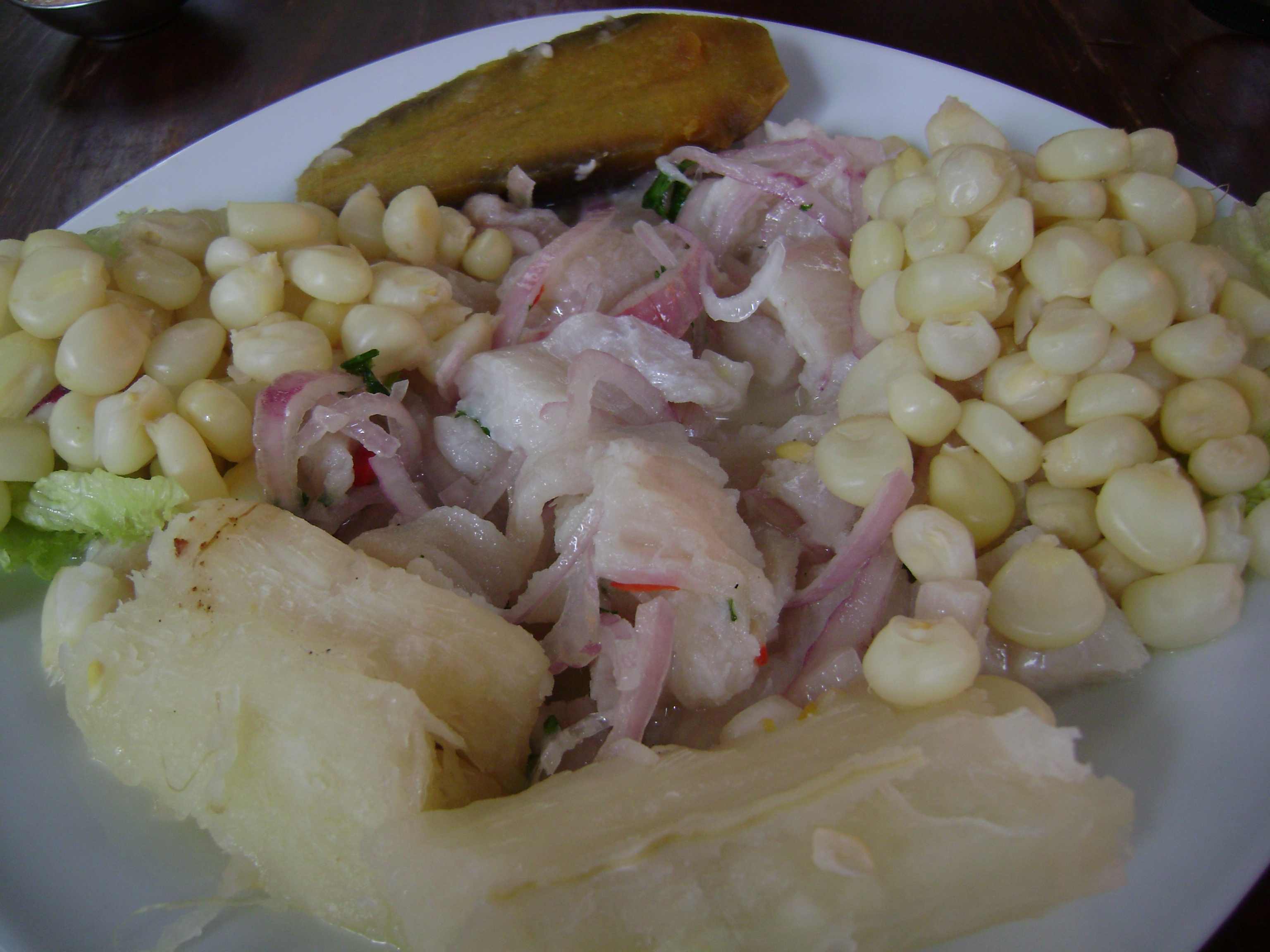 Ceviche de lenguado, served with beans of boiled corn and sweet potatoe